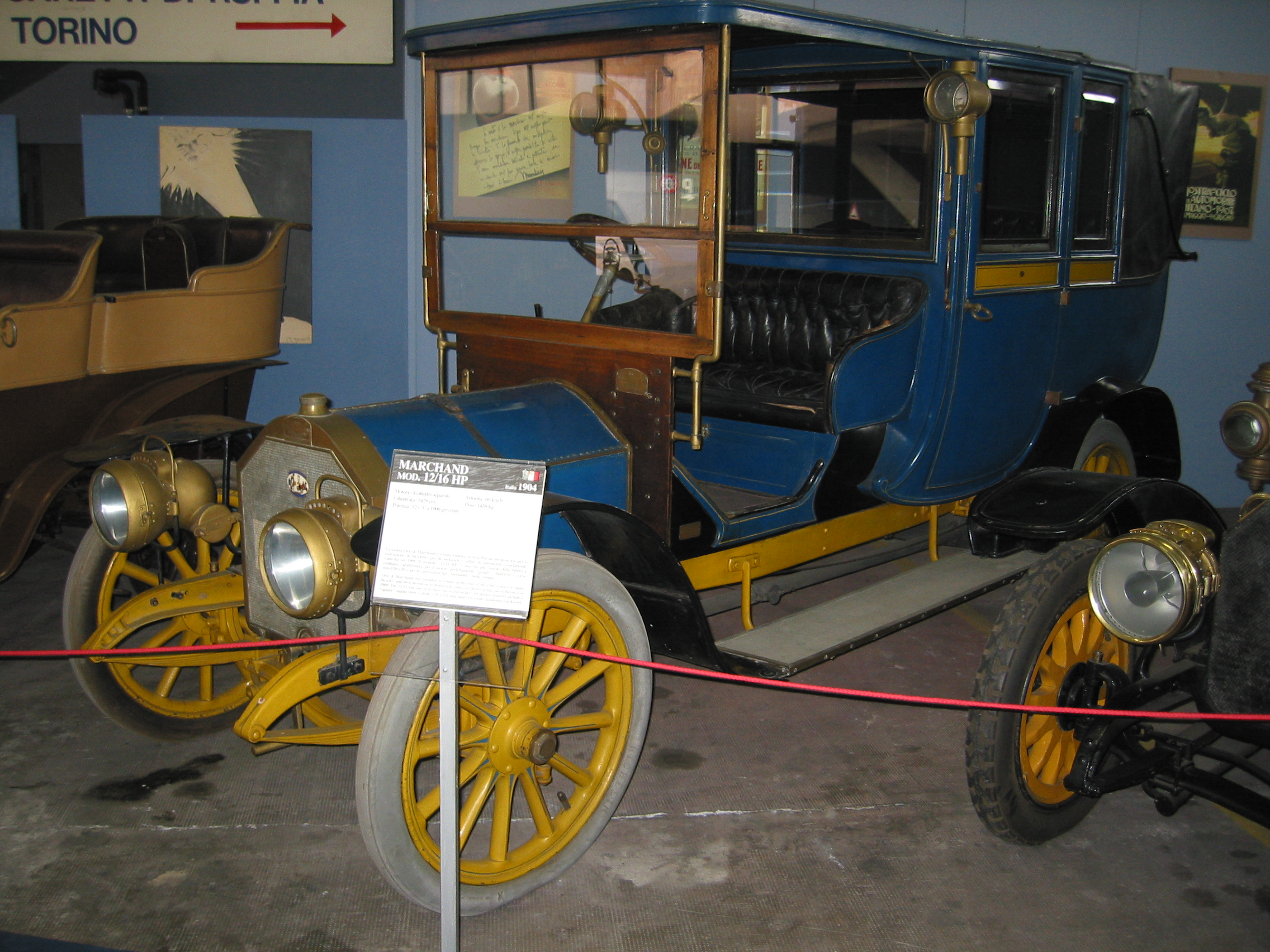 Marchand 1904